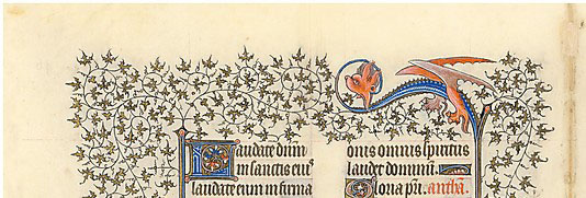 Example of border decoration from the Belles Heures du Duc de Berry